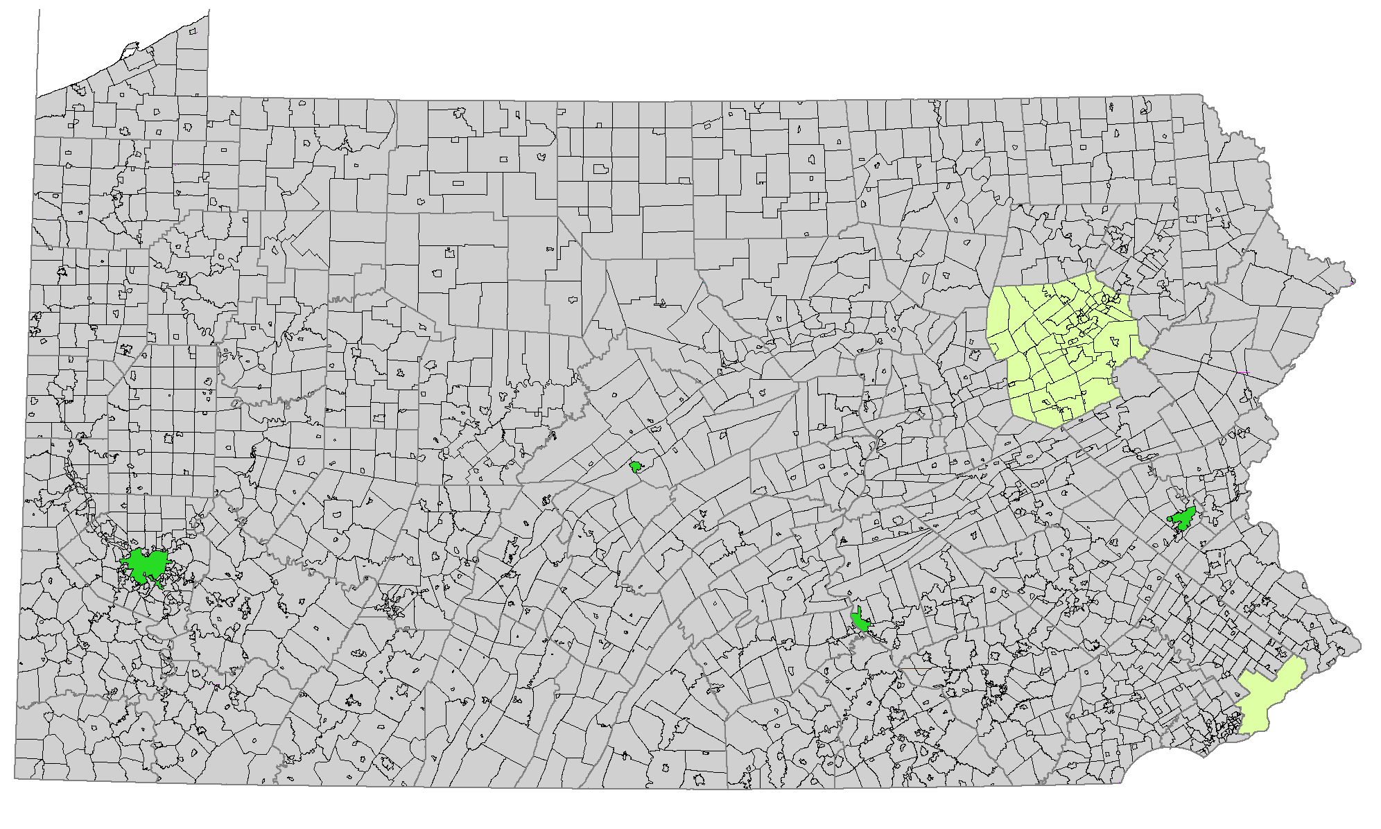 Map of Pennsylvania counties, cities, and boroughs that offer domestic partner benefits either county-wide or in particular cities. City offers domestic partner benefits County-wide partner benefits through domestic partnership County or city does not offer domestic partner benefits